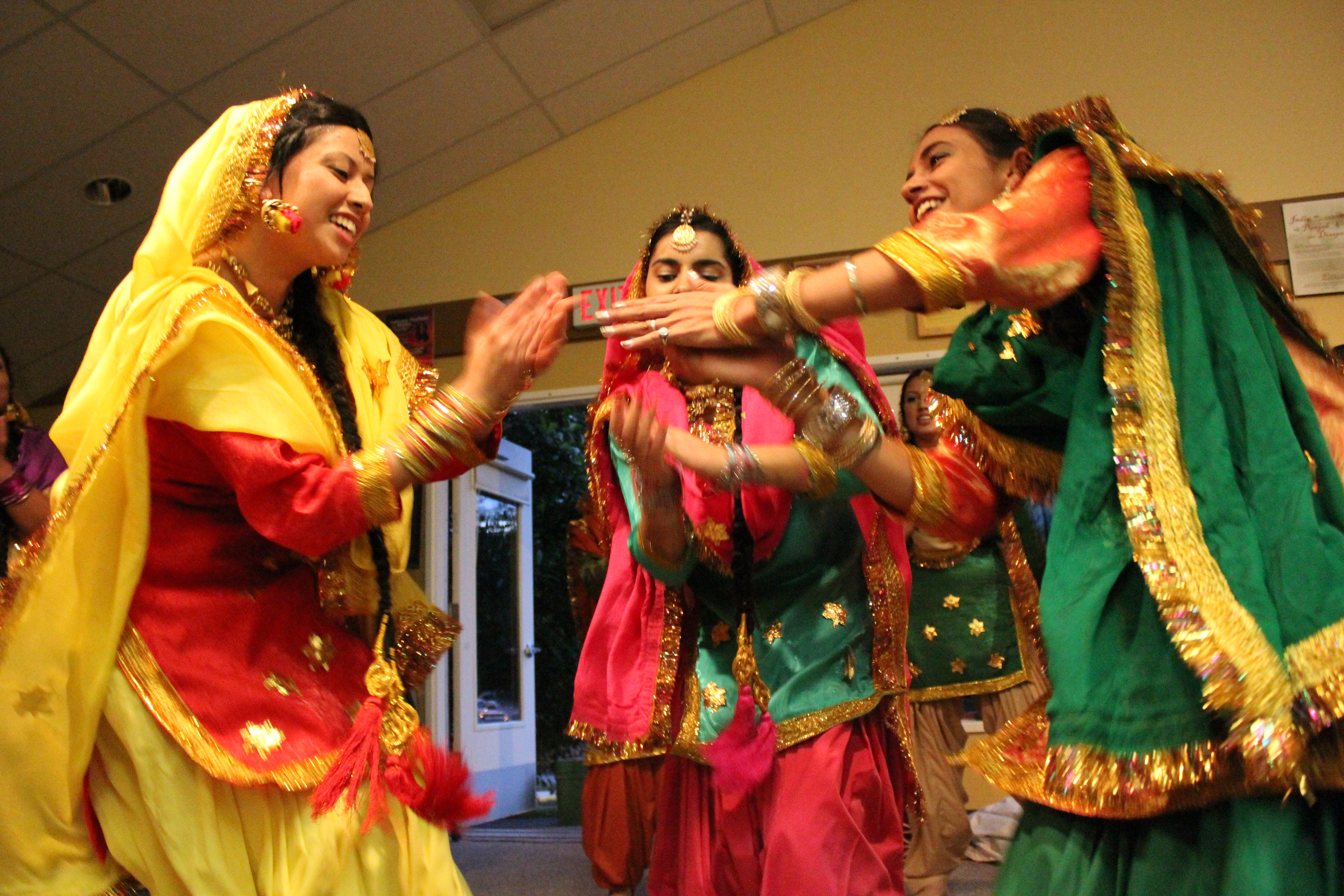 Folk songs, dances, typical at monsoon festival dance in north India